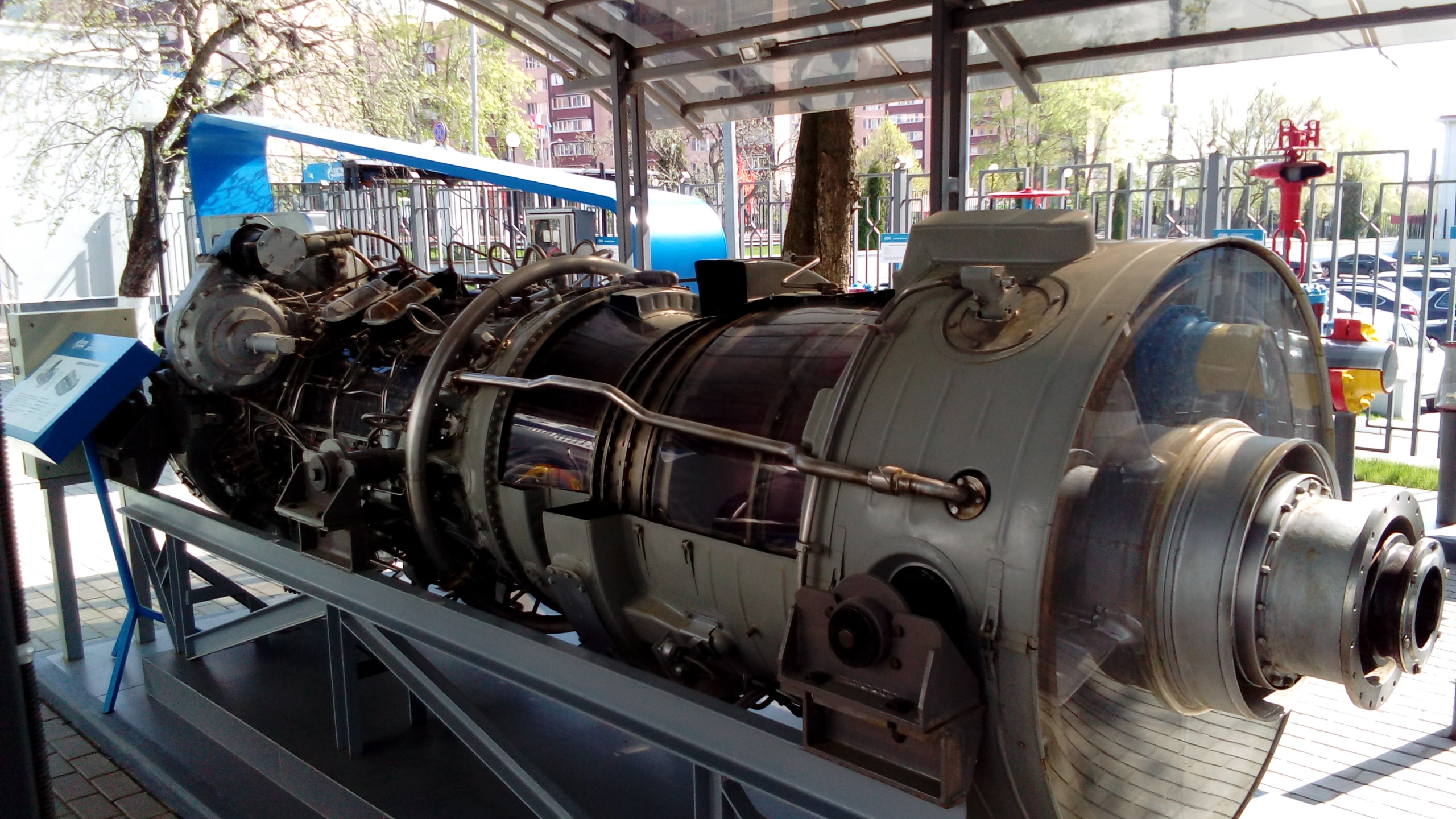 Gas turbine engine NK-12ST, produced by Samara OAO Motorostroitel (Russia) since 1974, used at gas compressor stations by Gazprom Transgaz Moscow since 1981